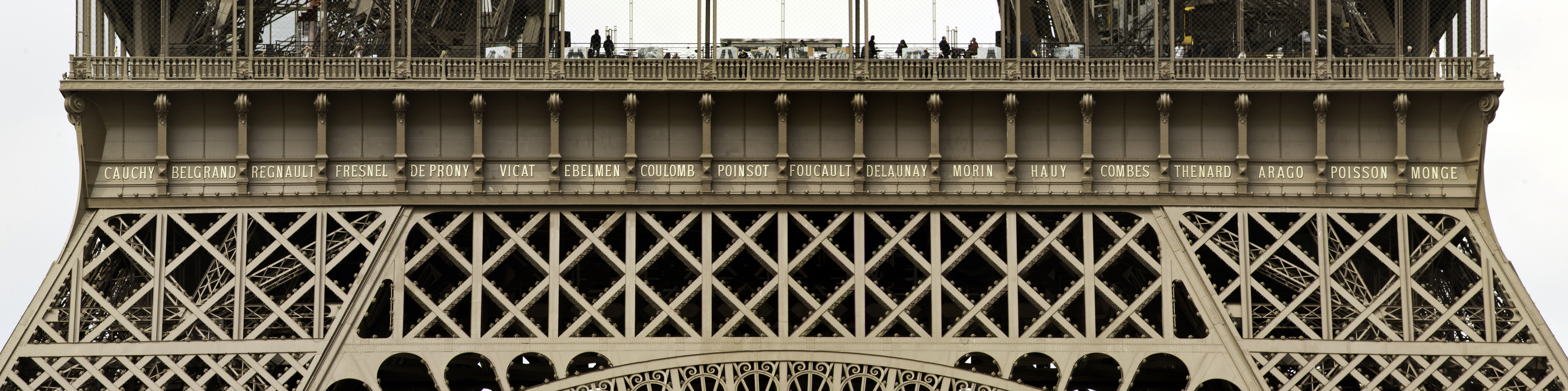 72 names on the Eiffel Tower, Paris, France.